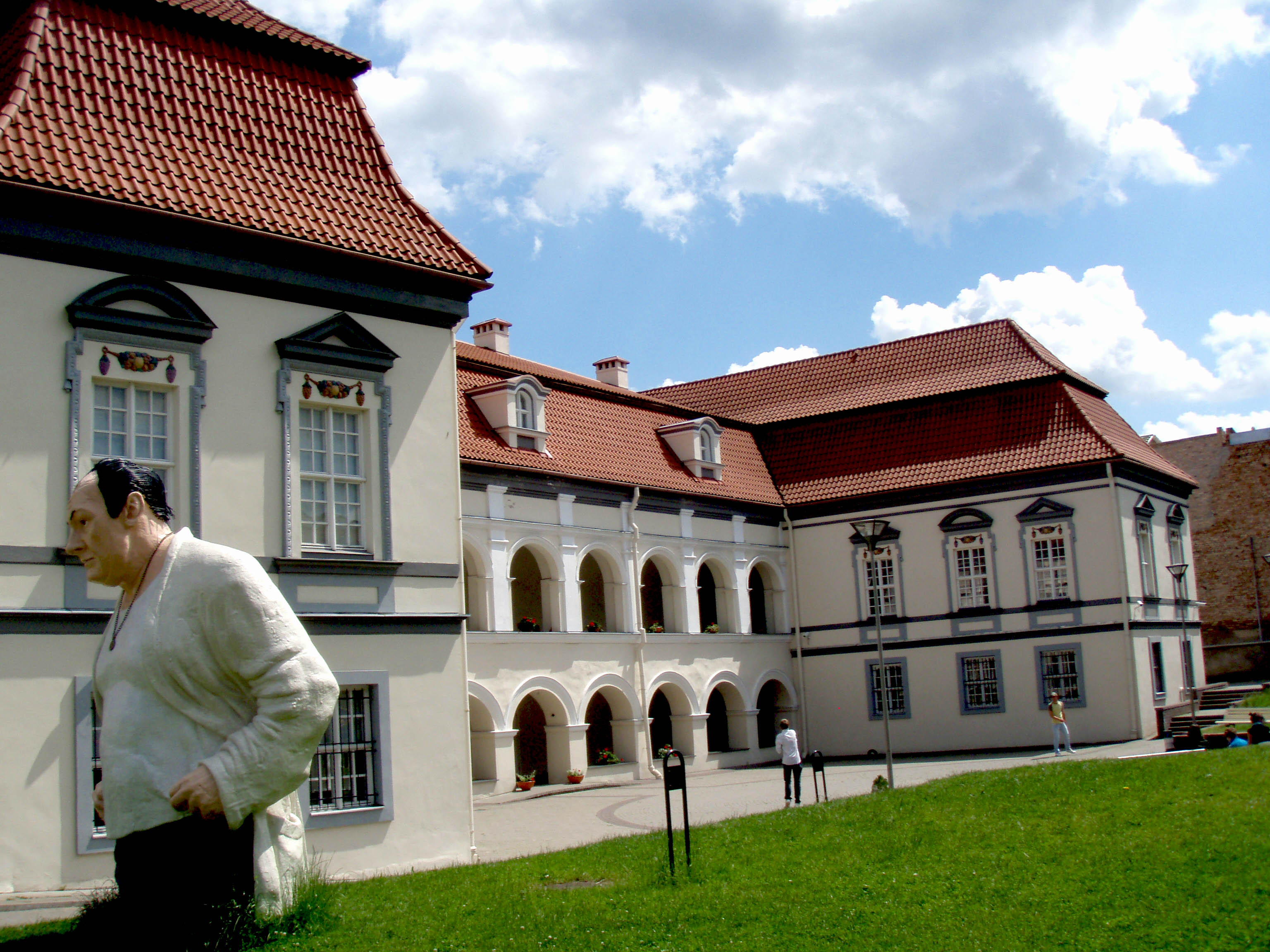 Former Radziwiłł palace, built in second half of 17th century, currently used as a museum of Lithuania's theatre, music and cinema.